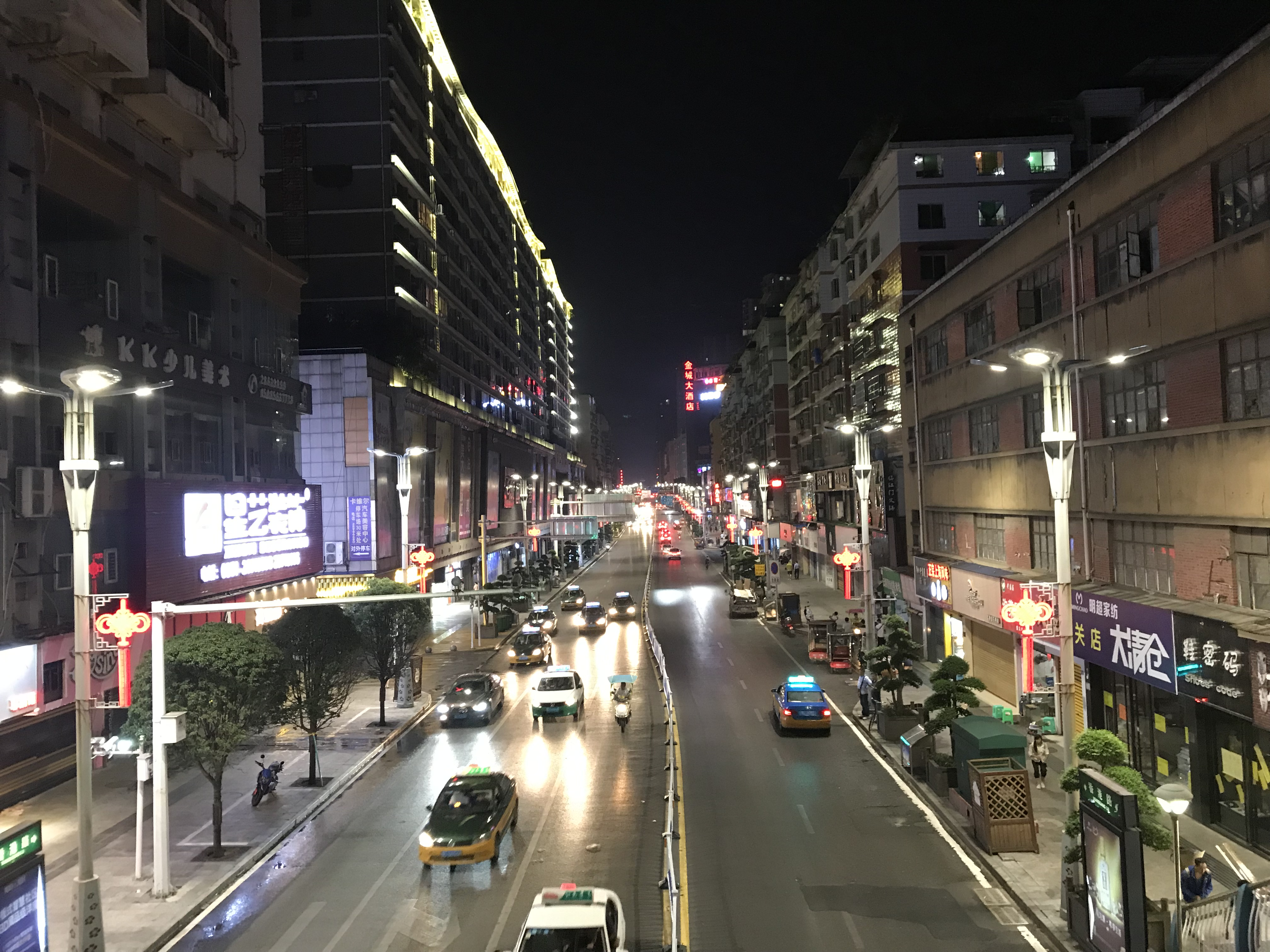 And the former area code for Zunyi is 852, and there is a Jiulongtang Station...